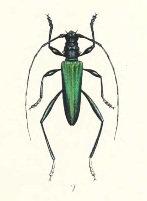 « Callichroma collare » = Rhopalophora collaris